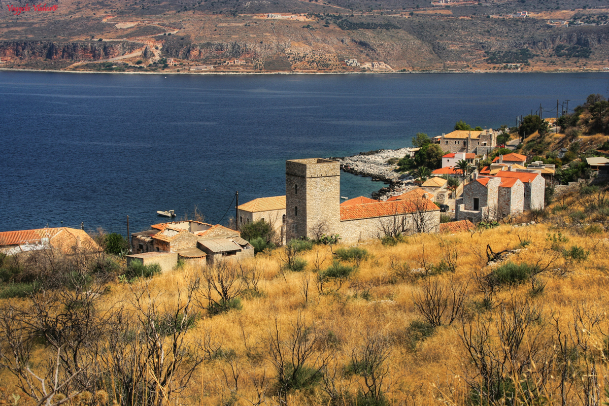 Mani - Hellas - Greece